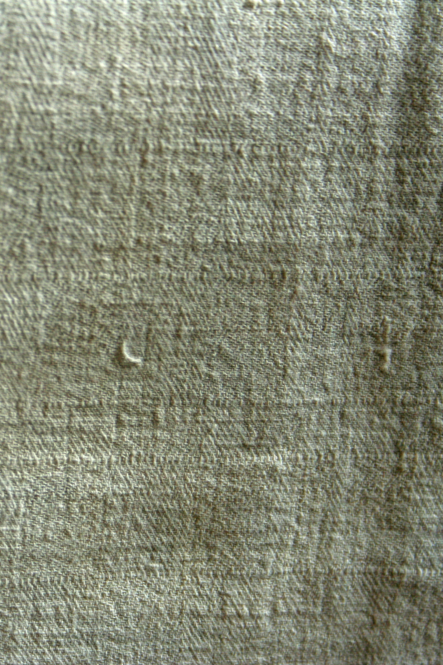 This is a part of an old hand-woven linen towel that was made by mother of my 74 year old neighbour, baba Anica, beginning 20th century, Balkans. If you use this texture, I'd love to see what you did with it. Please post a link to your image in a comment! The right side is in slight shadow, but I wanted to leave original as it was. It can be, for texture purposes, easily adjusted with shadow/highlight.